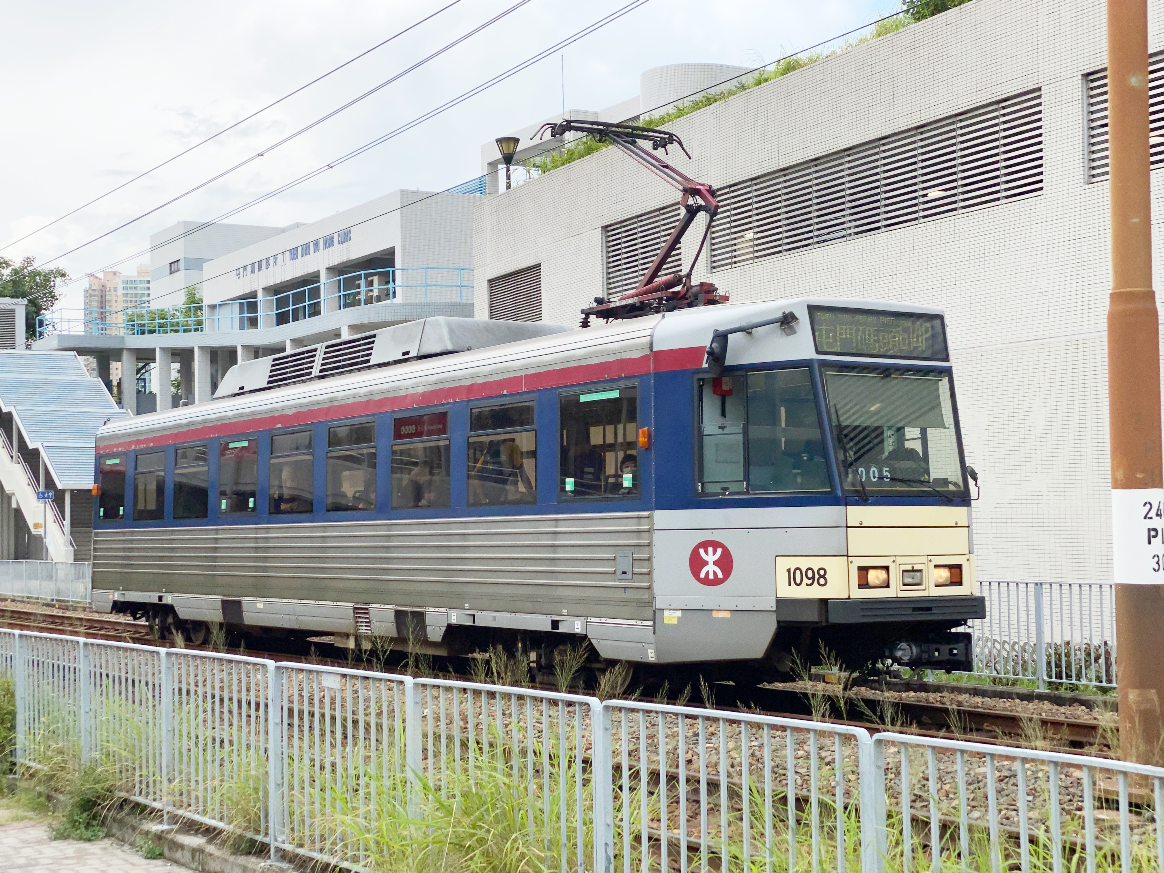 中文（香港）: This photo is taken in Wu King.